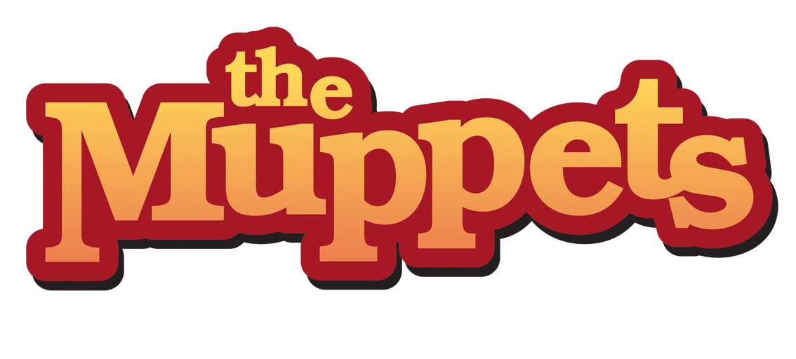 Logo used for Muppets merchandise after 2004 purchase by Disney. This logo can be seen on Muppets merchandise produced between 2004-2011. This logo replaced a logo that contained the words "Jim Henson's Muppets", and was later replaced with a new logo (plain black text with the words "Disney The Muppets", showcasing a green "M" with frills styled after Kermit the Frog"), prior to the release of The Muppets.